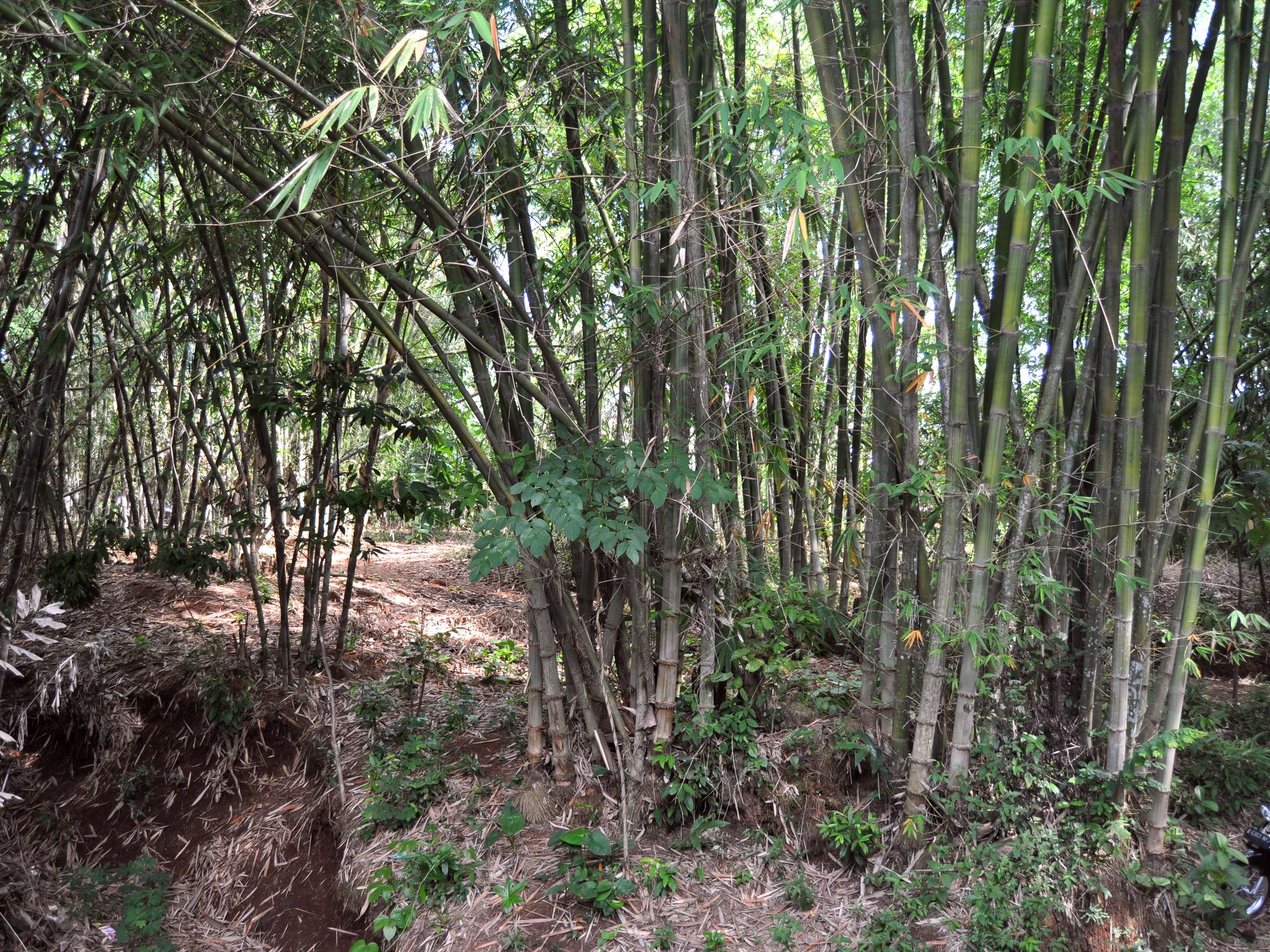 Maxima bamboo (Gigantochloa pseudoarundinacea); habits. From Kuningan, West Java, Indonesia.